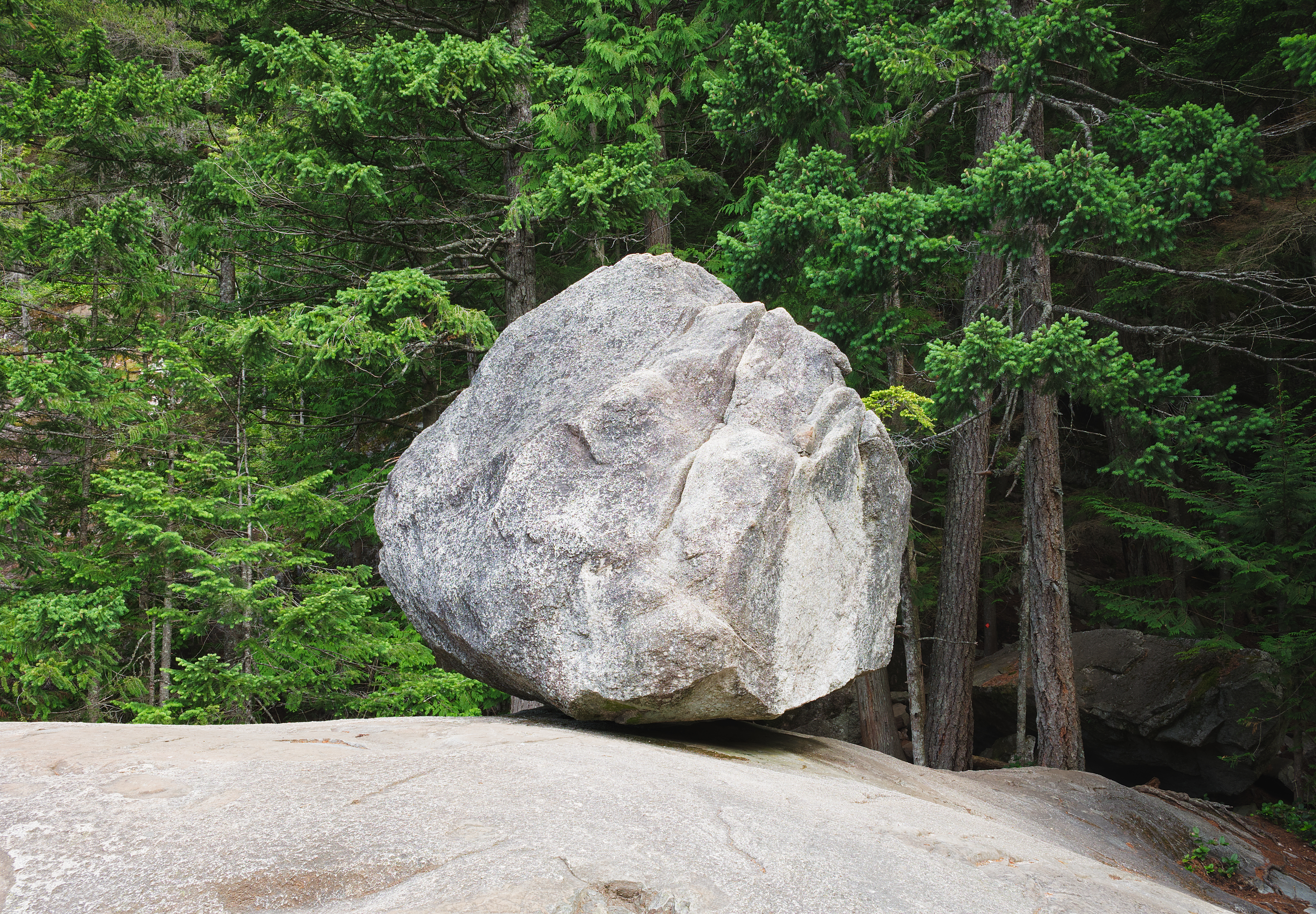 Boulder along the chief hike in Stawamus Chief Provincial Park, BC